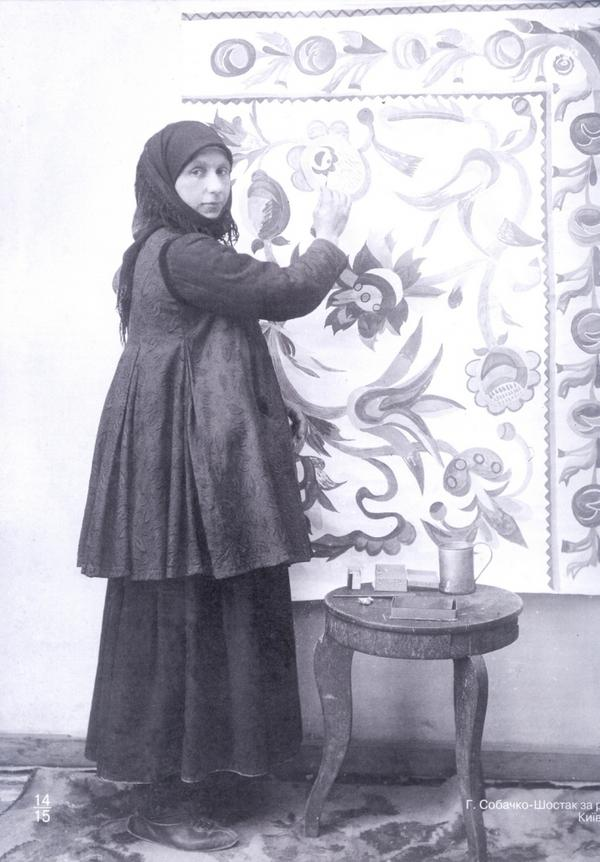 Hanna Shostak (Ukrainian: Соба́чко-Шоста́к Га́нна; née Sobachko; 1883–1965) was a folk painter of Ukraine.